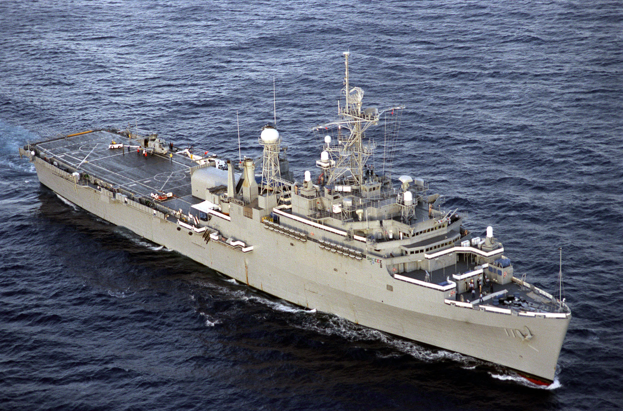 Starboard bow view of the auxiliary command ship USS Coronado (AGF-11) as she returns to Hawaii at the end of exercise RIMPAC '98.